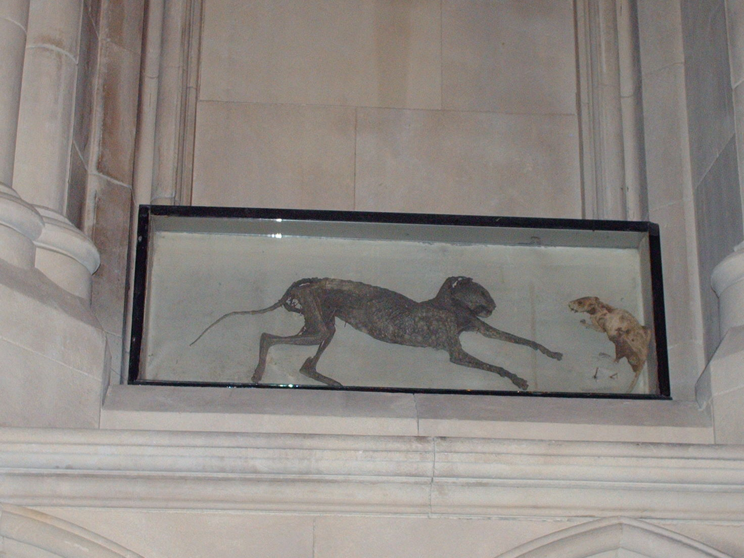 The cat and the rat at Christ Church Cathedral, Dublin, Ireland check usage